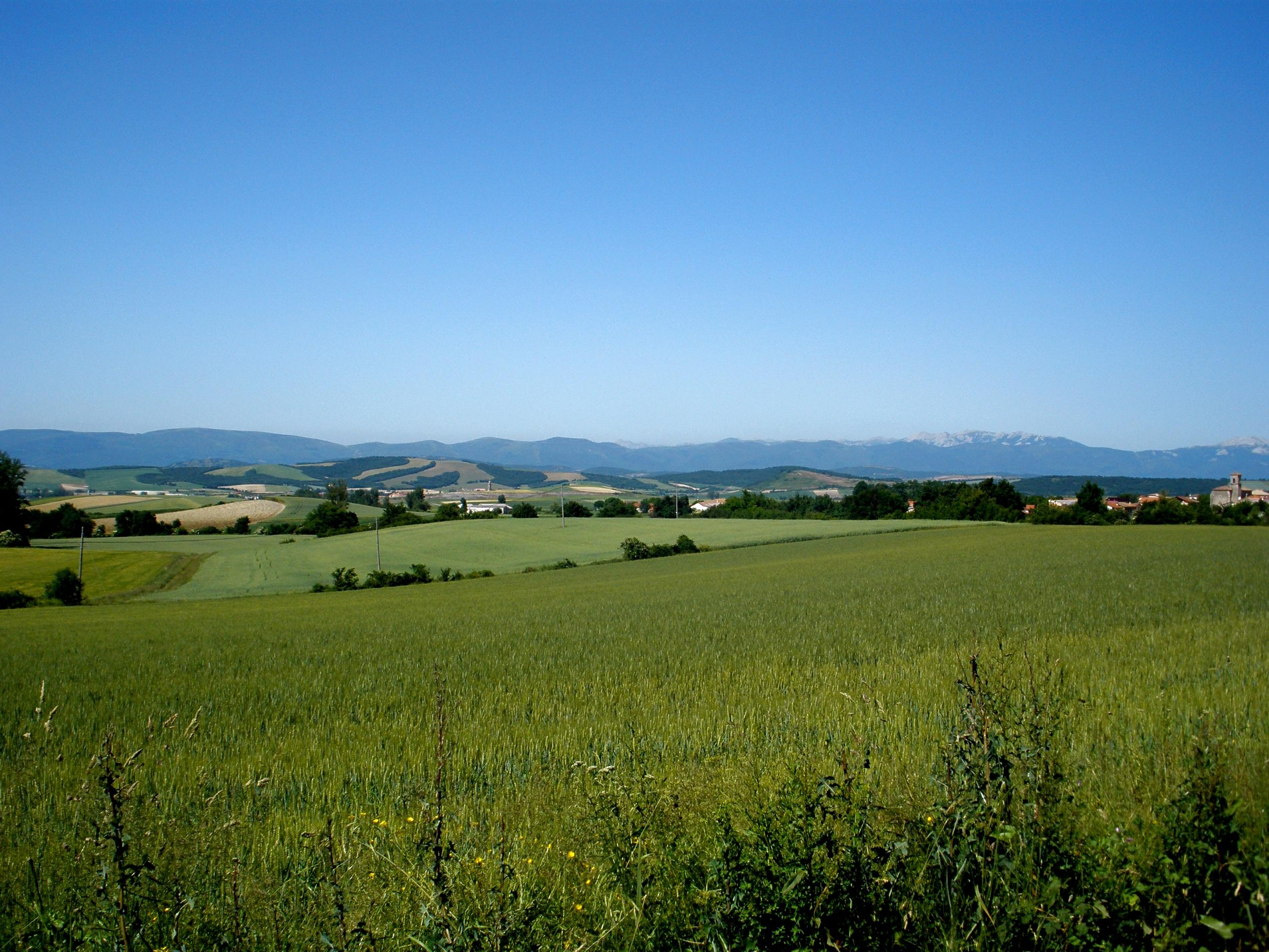 Junio en la Llanada Alavesa, entre Erentxun y Egileta (Álava, País Vasco, España)